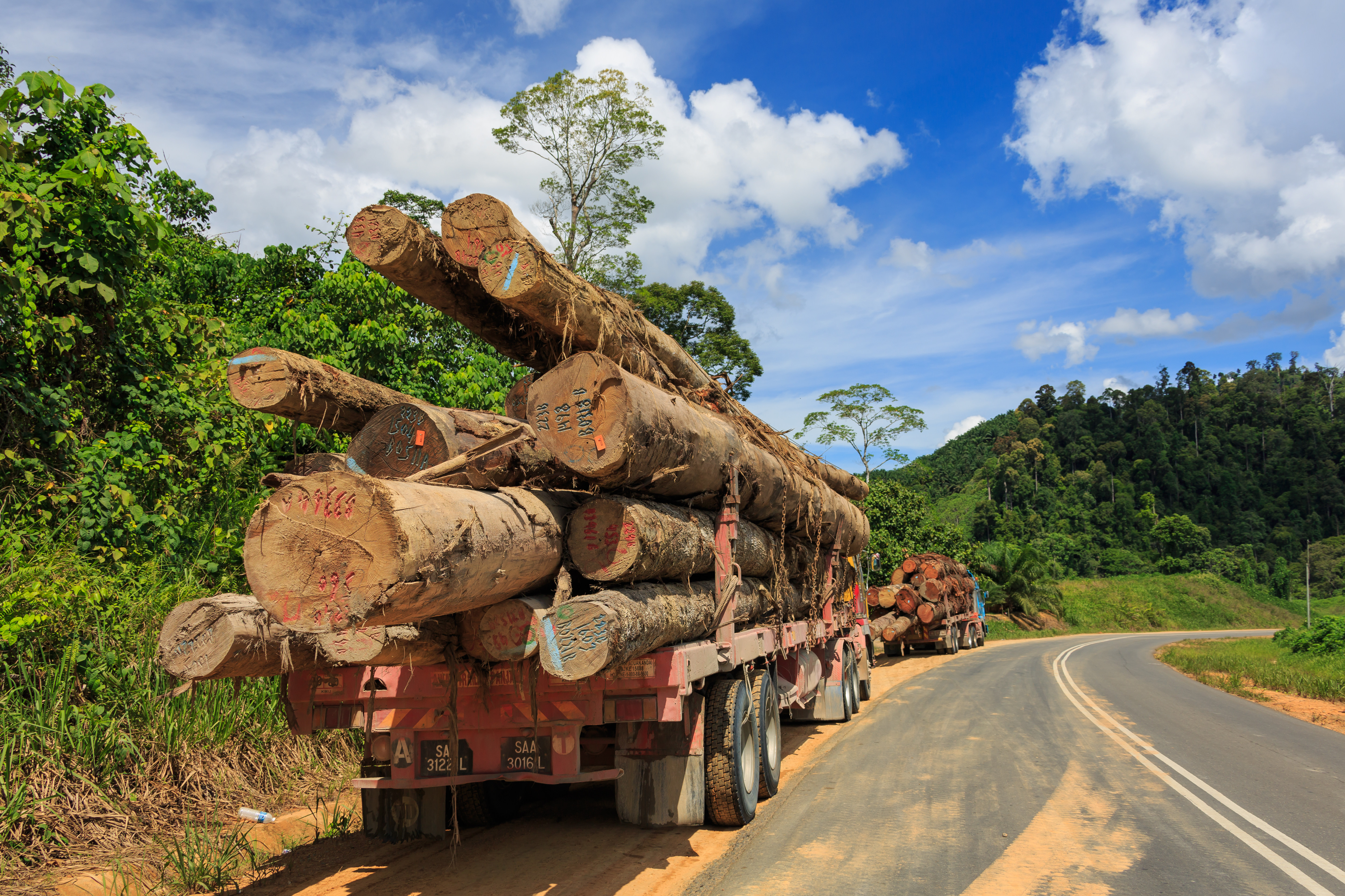 District Tawau, Sabah: Two logging trucks at the Kalabakan-Sapulot-Road, taking heavy tropical timber logs to the log pond in Kalabakan